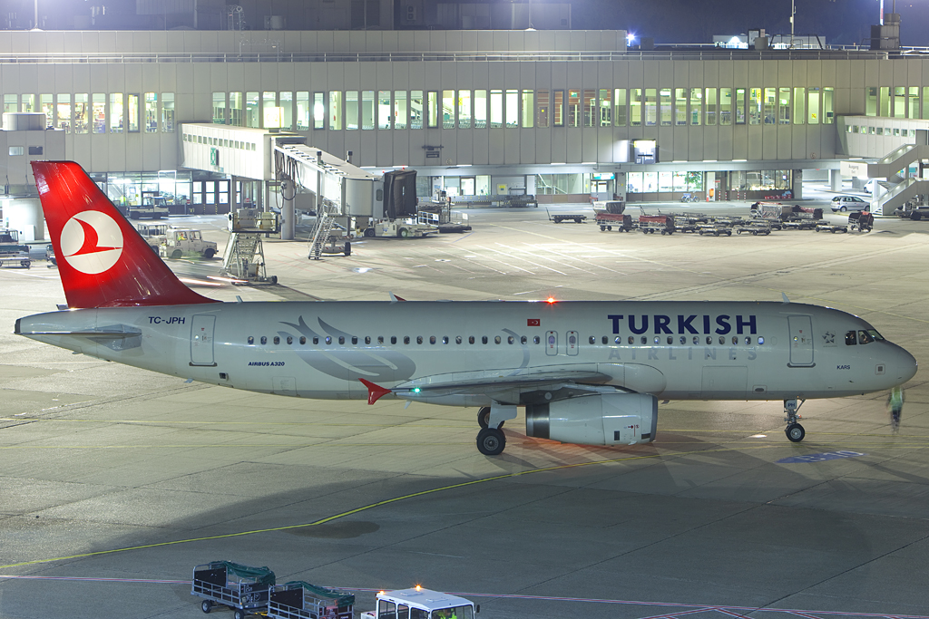 TC-JPH A320 Turkish